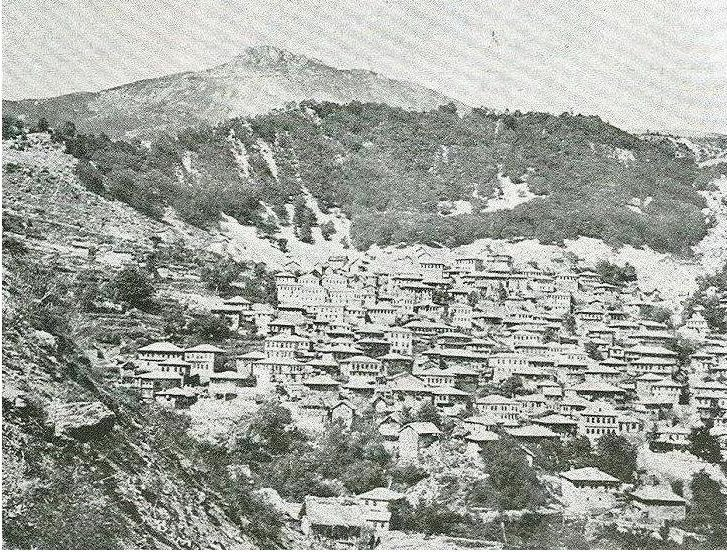 The Village of Gari, Debar, Macedonia.